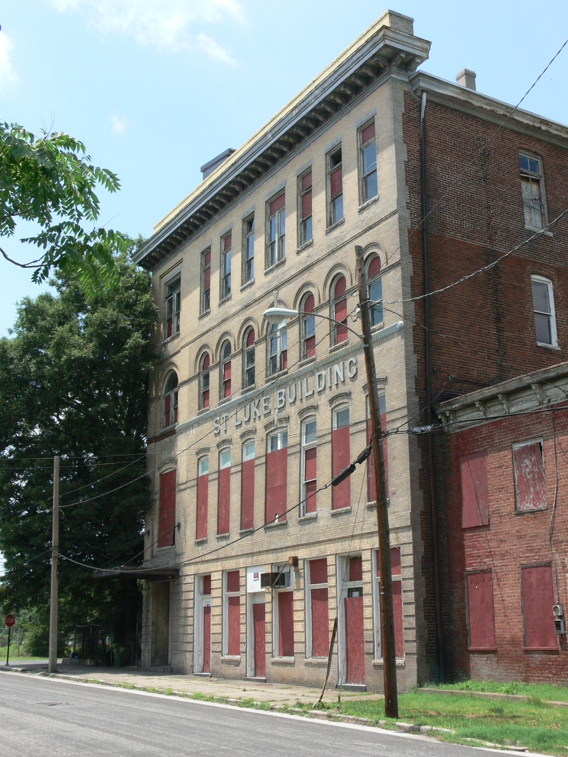 The St. Luke Building in north Jackson Ward in Richmond, Virginia; on the National Register of Historic Places